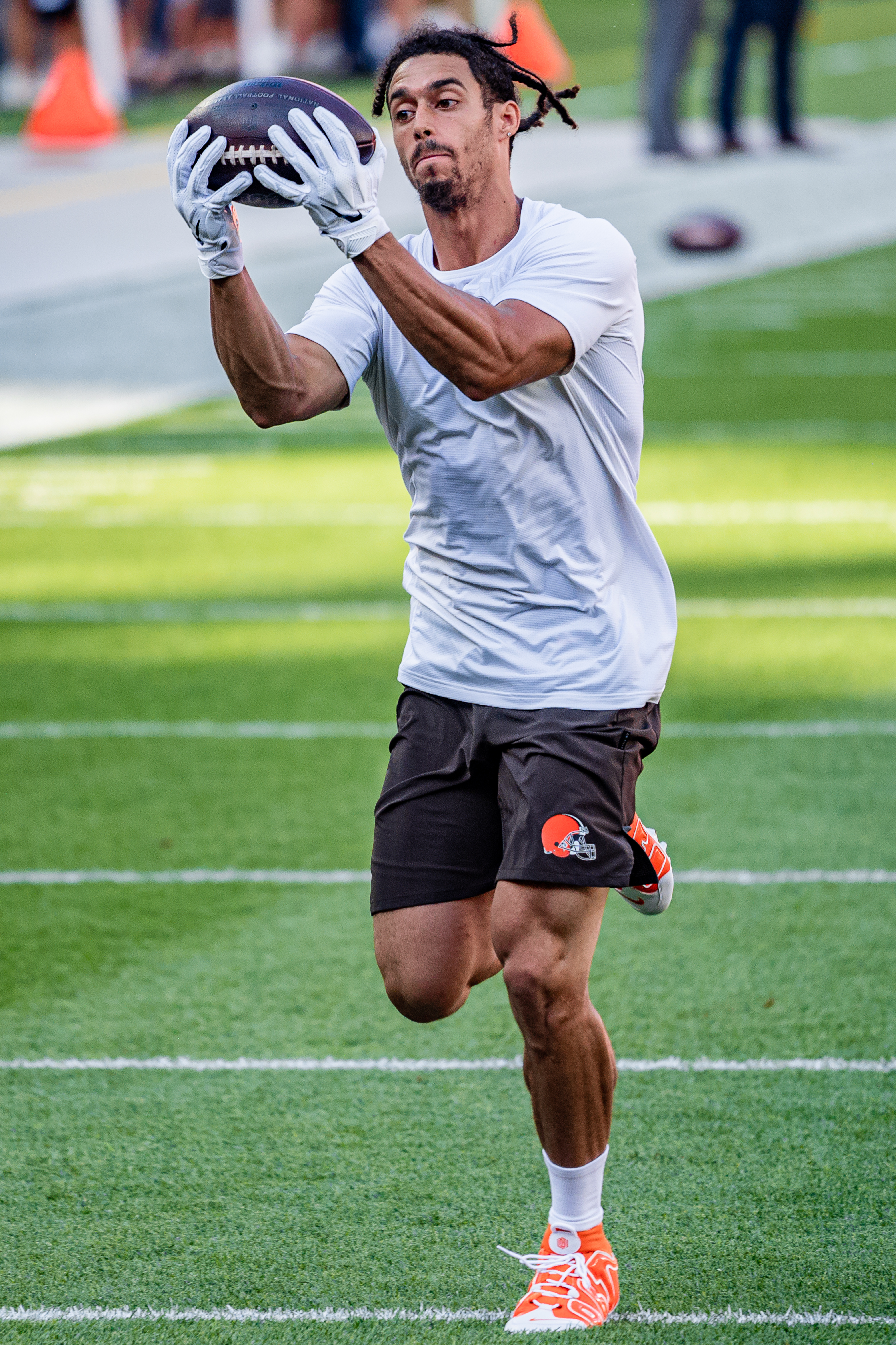 Cleveland Browns wide receiver, Damon Sheehy-Guiseppi, warming up before a preseason game against the Washington Redskins on August 8, 2019.